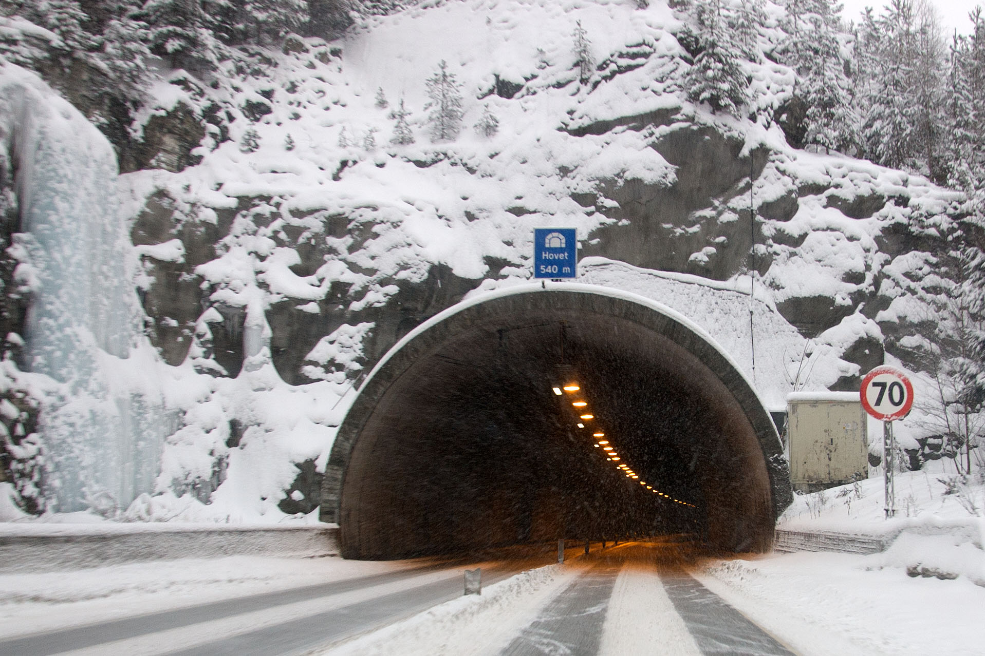 Hovet tunnel on E18 in Porsgrunn, Telemark, Norway